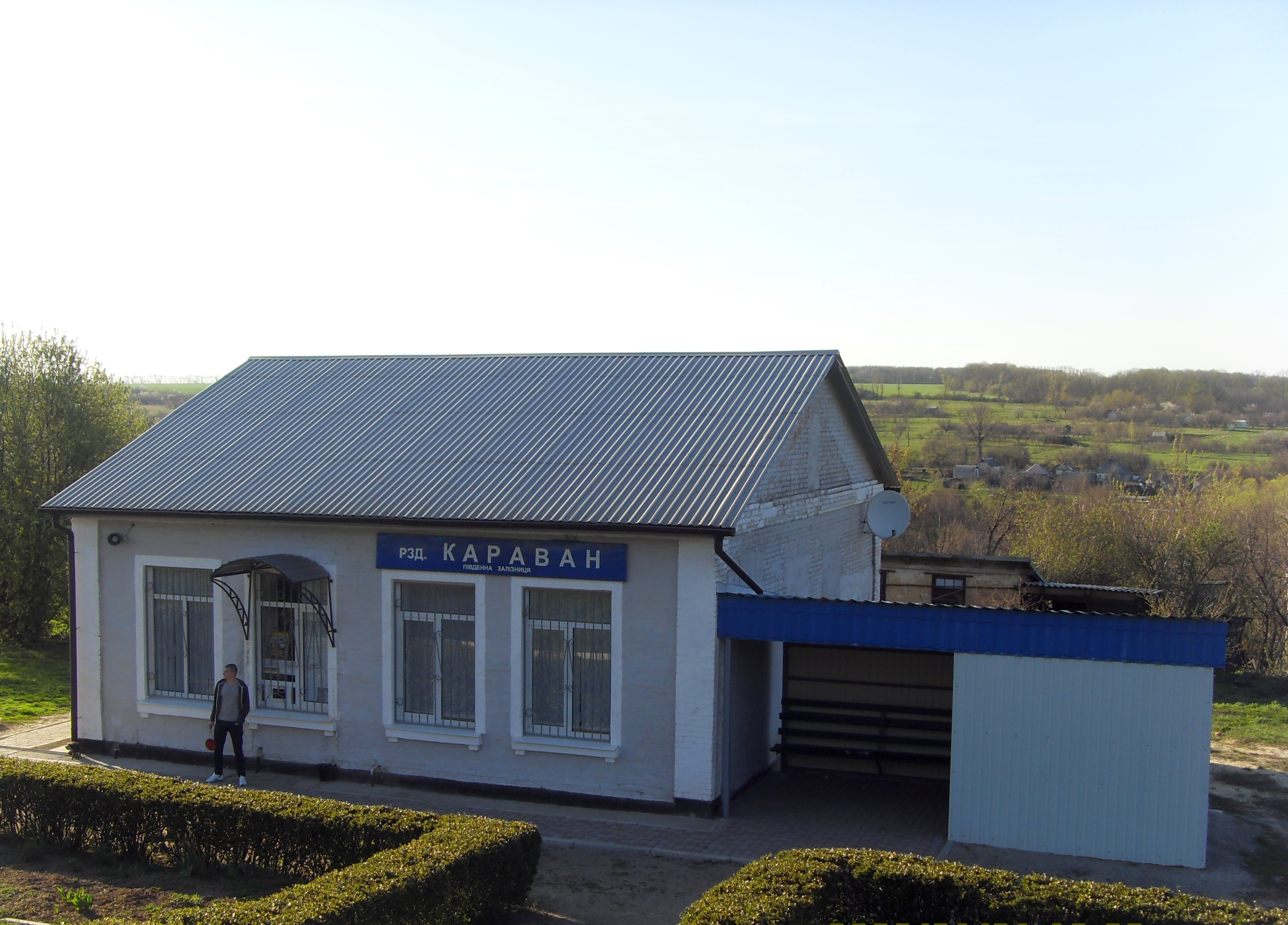 Karavan train station.